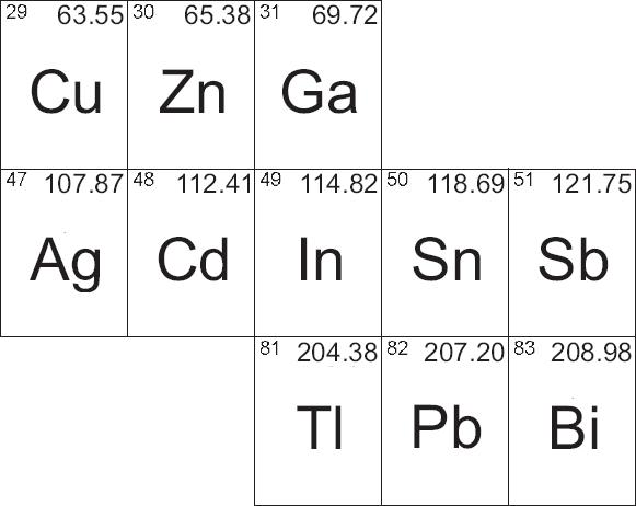 Showing similarities in the periodic table of chemistry